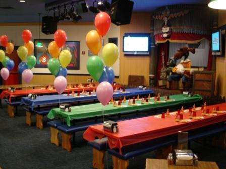 Wilsonville Family Fun Center & Bullwinkles Restaurant. Wilsonville, Oregon, USA.